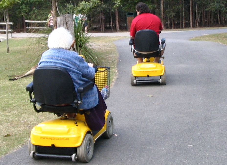 I took this image myself at the Australia Zoo.